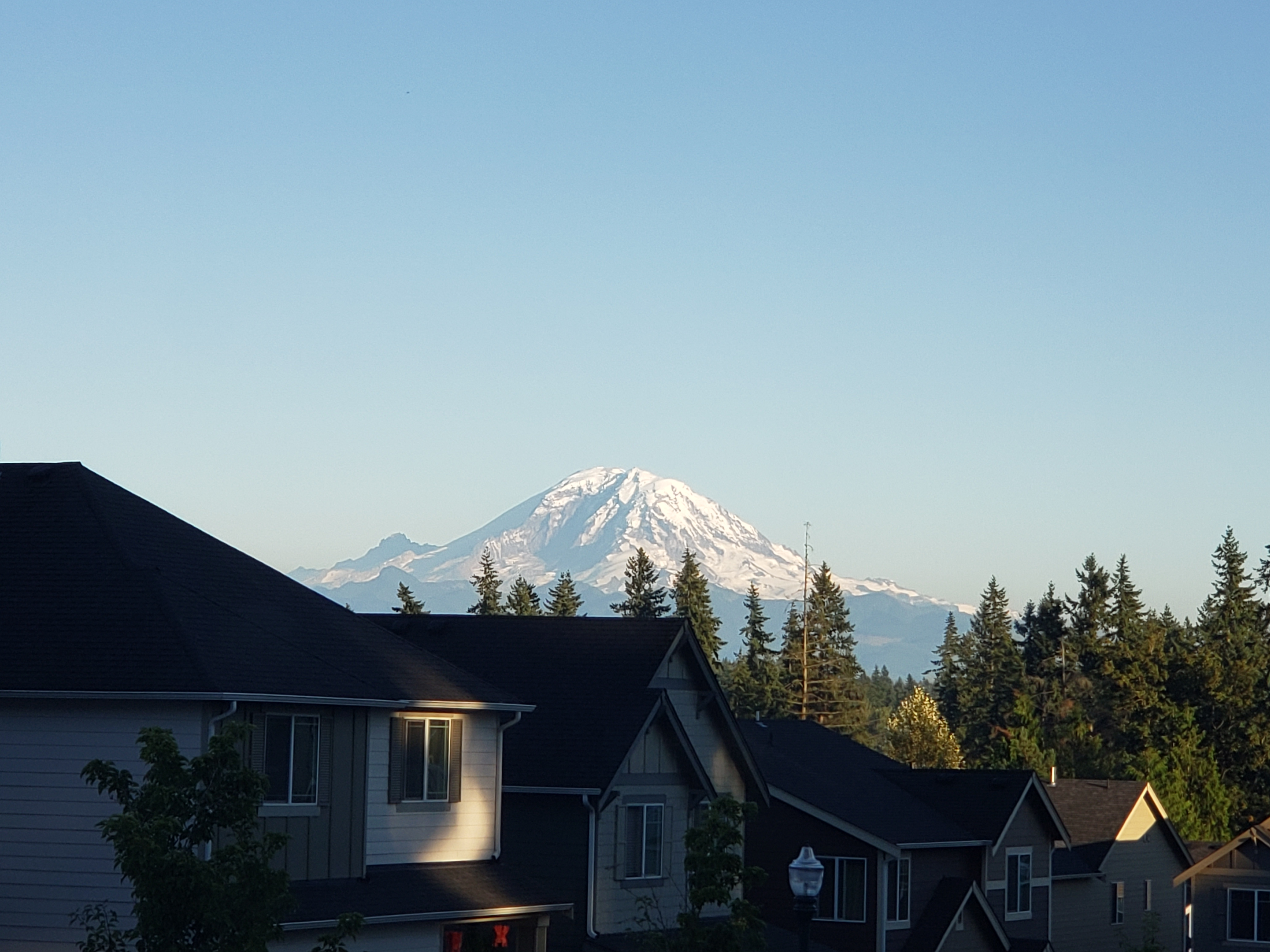 Image from Covington, WA